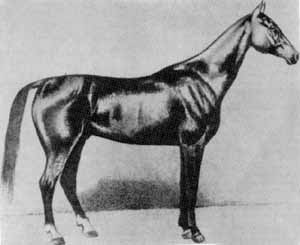 The most famous Akhal-Teke stallion Boynou born in Russia in 1885.